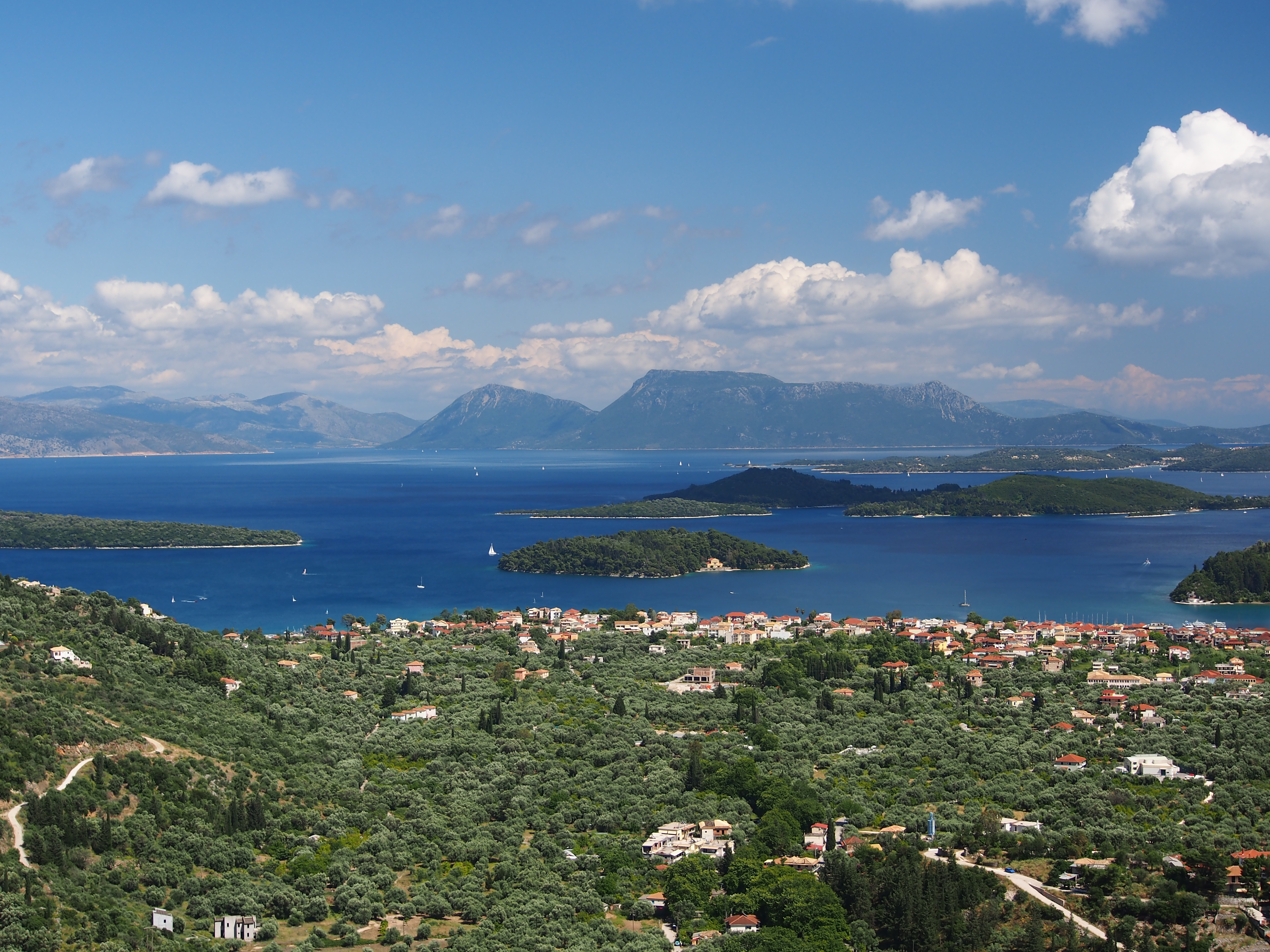 Photographed on Lefkada, Greece.